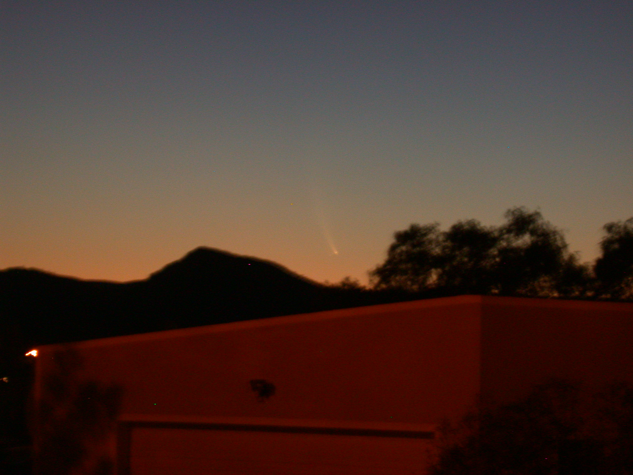 Comet McNaught seen from Windhoek on January 17th 2007. Photo taken by bries with an old Nikon CoolPix 995.